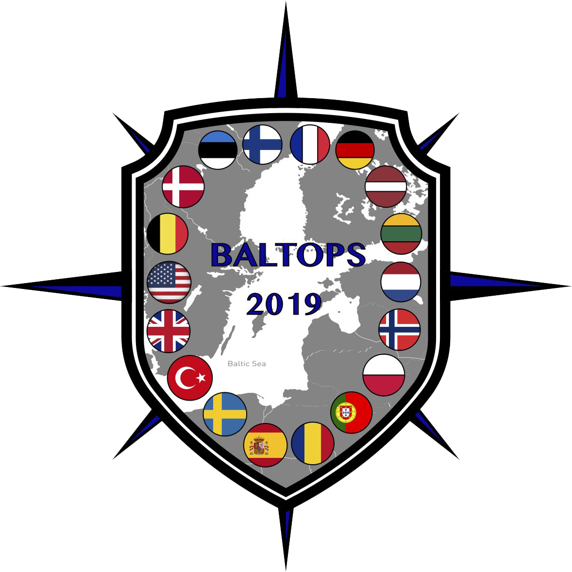 The logo for exercise Baltic Operations (BALTOPS) 2019. BALTOPS is the premier annual maritime-focused exercise in the Baltic region and one of the largest exercises in Northern Europe enhancing flexibility and interoperability among allied and partner nations.